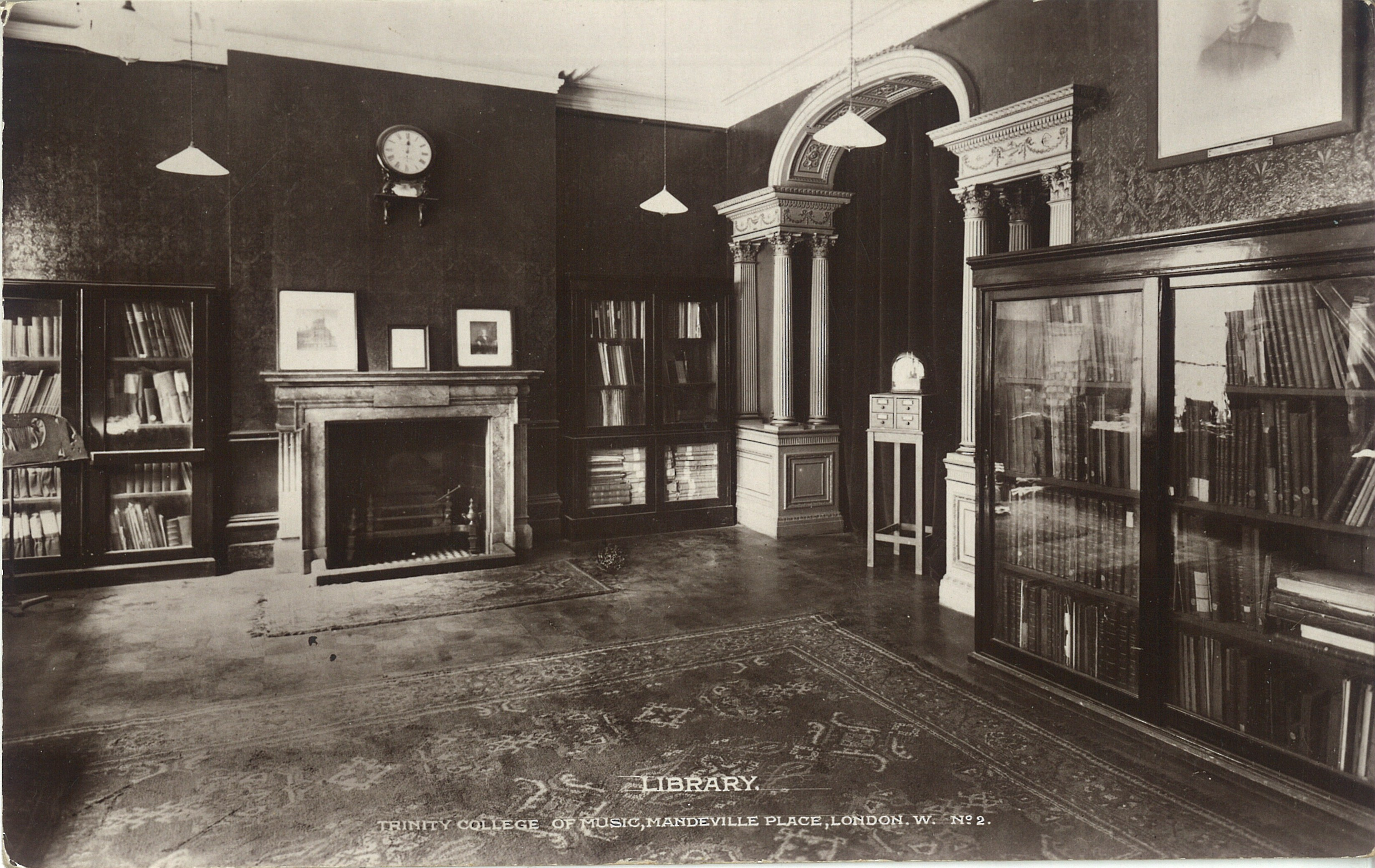 Maker: unknown Date: [1922] Catalogue ref: TCM 12/6/3